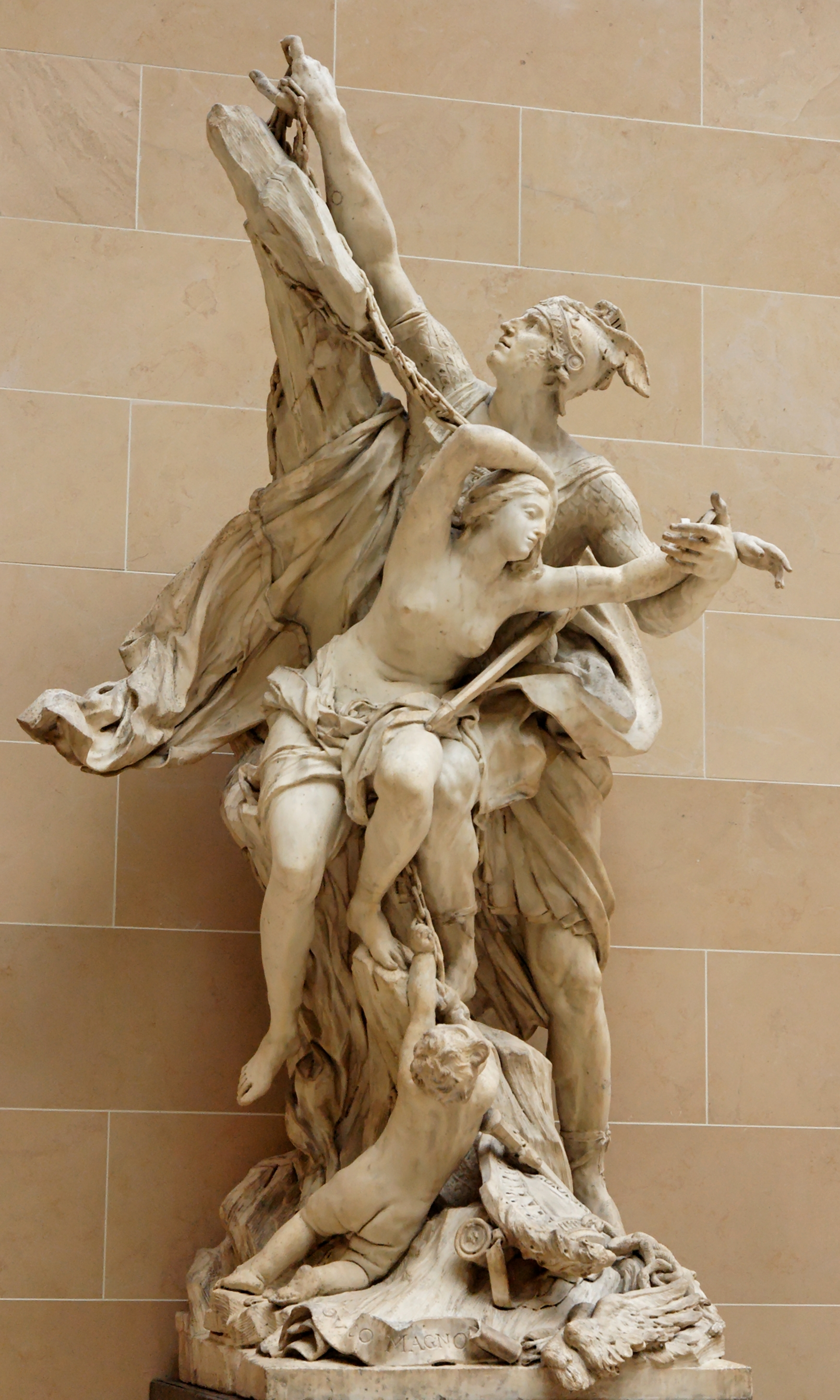 Perseus and Andromeda. Commissioned by Louis XIV for the Gardens of Versailles. Carrara marble, 1684.